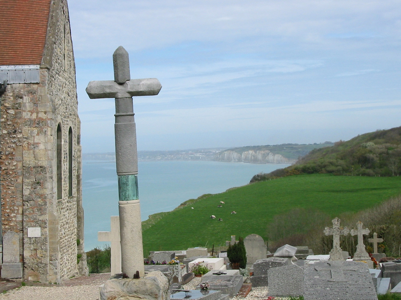 Graves above the sea in Varengeville-sur-mer (France, Seine-Maritime)